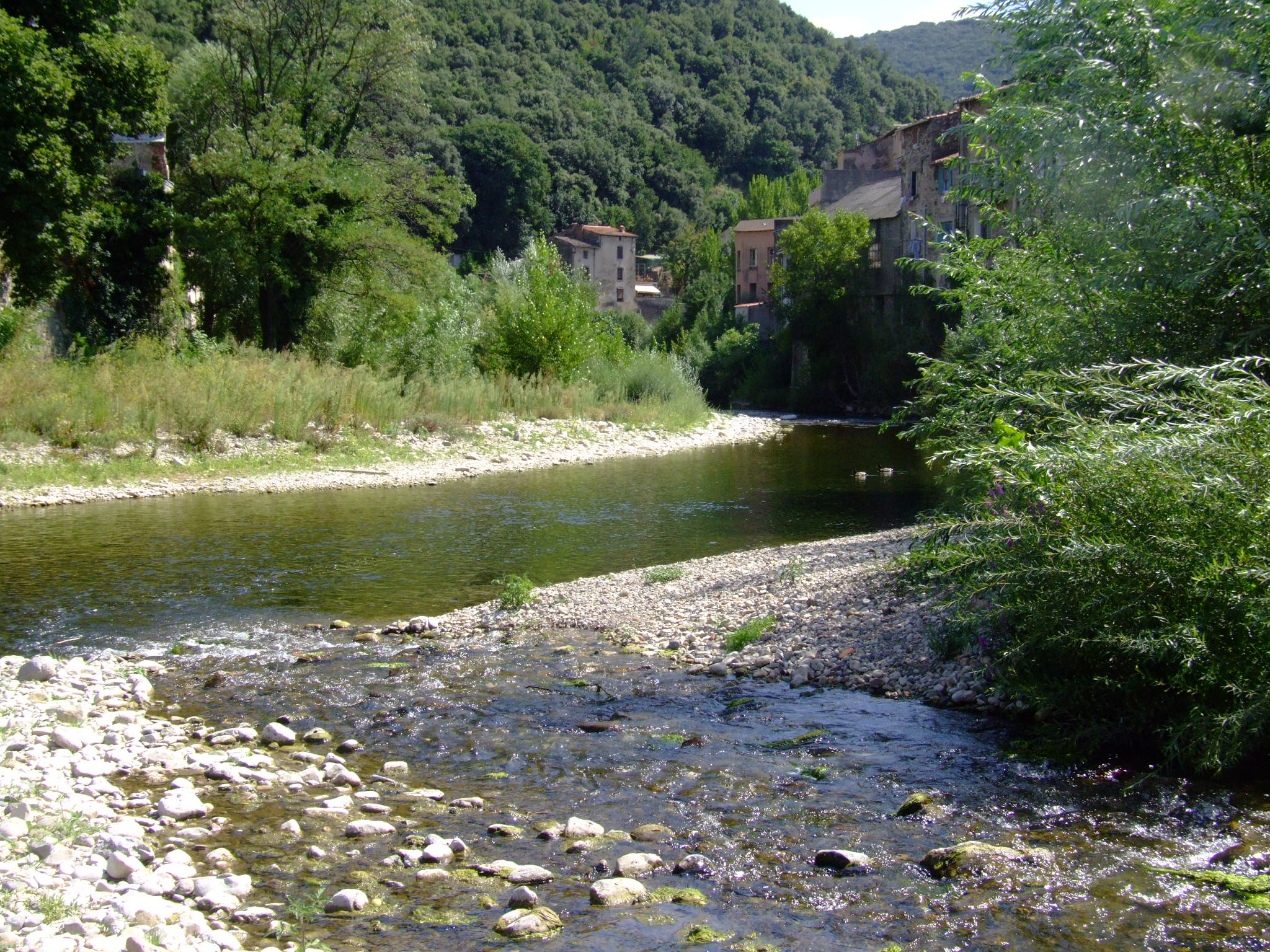 Lodève is a commune of the Hérault département - France. Confluence of the river Soulondre, bottom and the River Lergue flowing left to right.